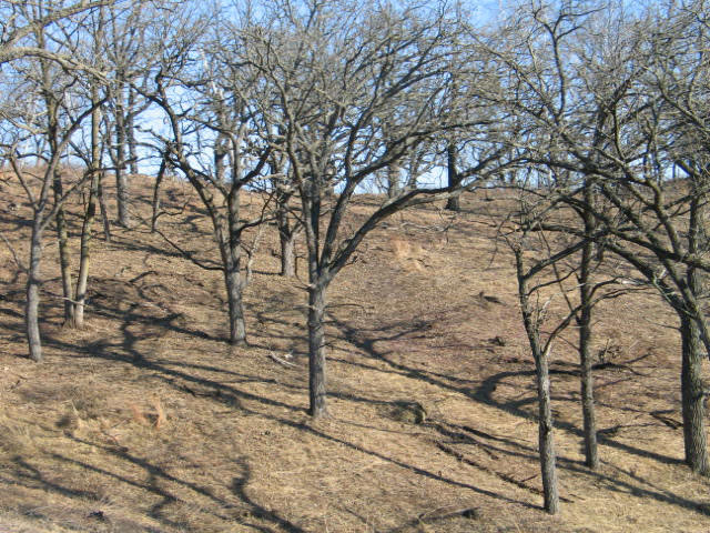 Grove of bur oaks on a Wisconsin hillside savanna; late fall